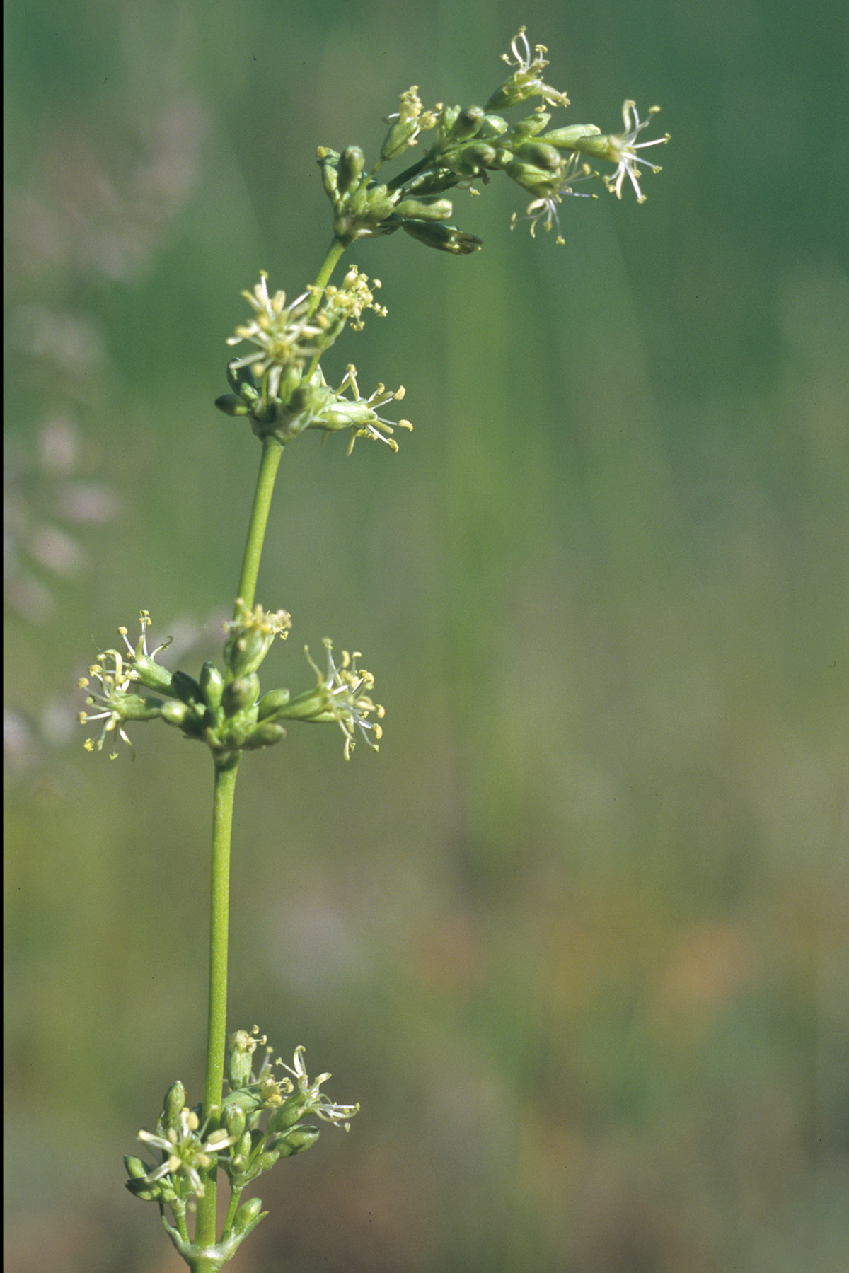 Silene otites (L.) Wib. - inflorescence. Germany, Kyffhäuser mountains